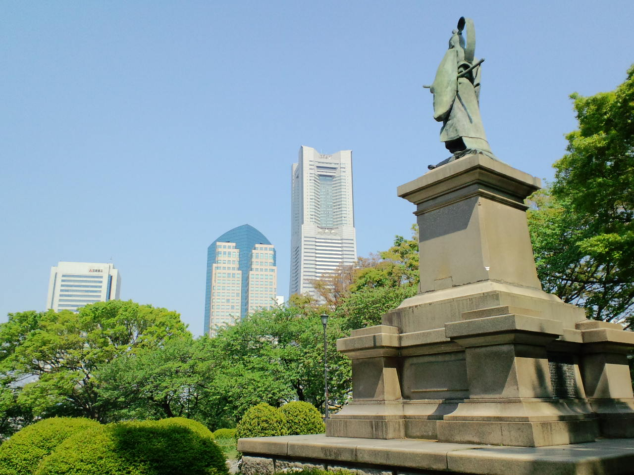 Kamon-yama Park in Yokohama, Japan